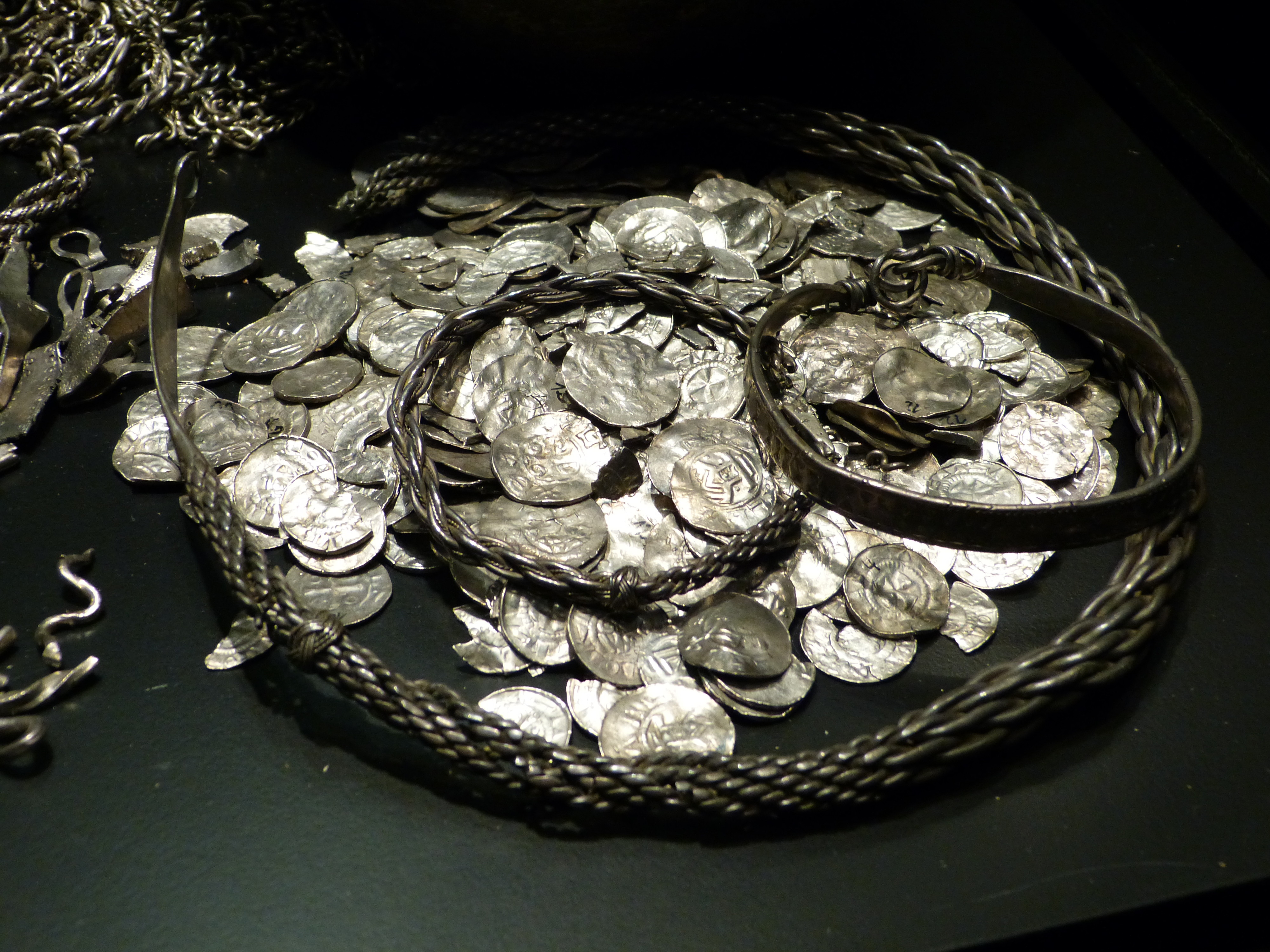 Groß Raden ( Mecklenburg ). Archaeological museum: Medieval treasure, from Schwaan, Bad Doberan district.